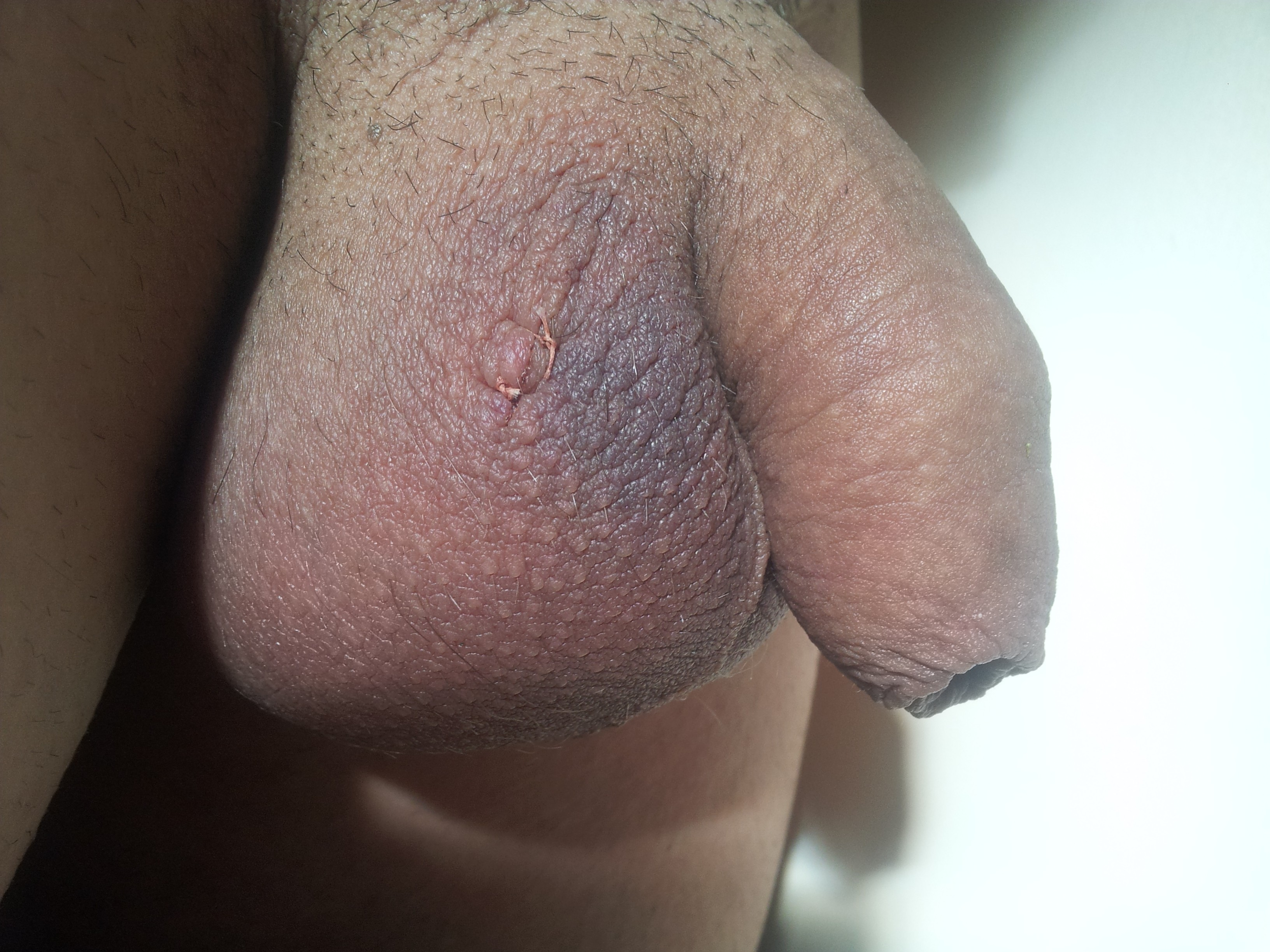 stich on testicles, 2 days after a vasectomy